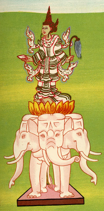 Thagyamin nat (spirit), th in the official pantheon of Burmese nats